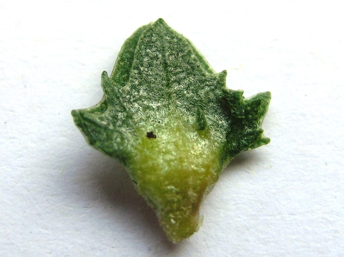 Atriplex tatarica, bracts of female flowers. Germany, east of Halle (Saale), parking place at highway A9 (Sachsen-Anhalt/Sachsen).